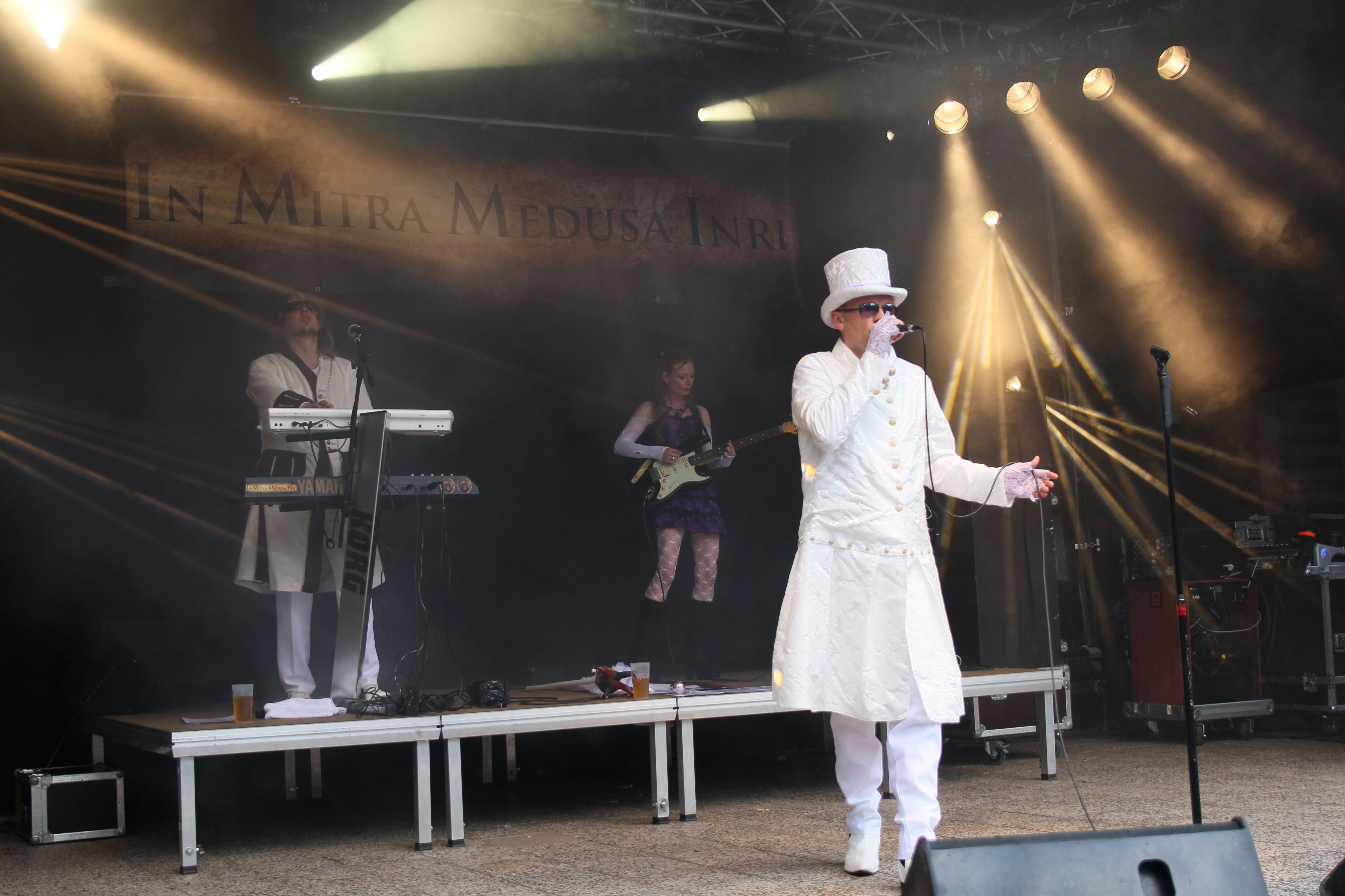 The German dark wave band In Mitra Medusa Inri at the Nocturnal Culture Night 9 2014 in Deutzen/Germany